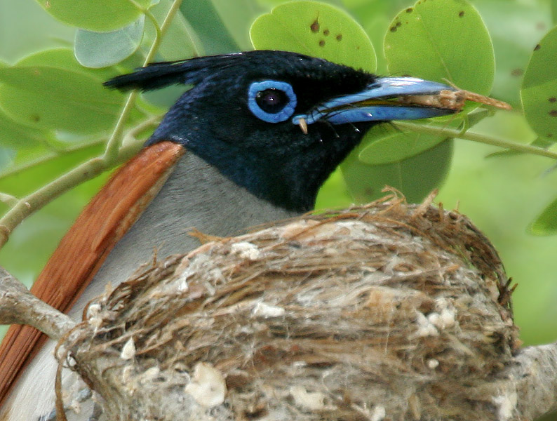 Asian Paradise-flycatcher or Common Paradise-flycatcher Terpsiphone paradisi at Ananthagiri Hills, in Rangareddy district of Andhra Pradesh, India.